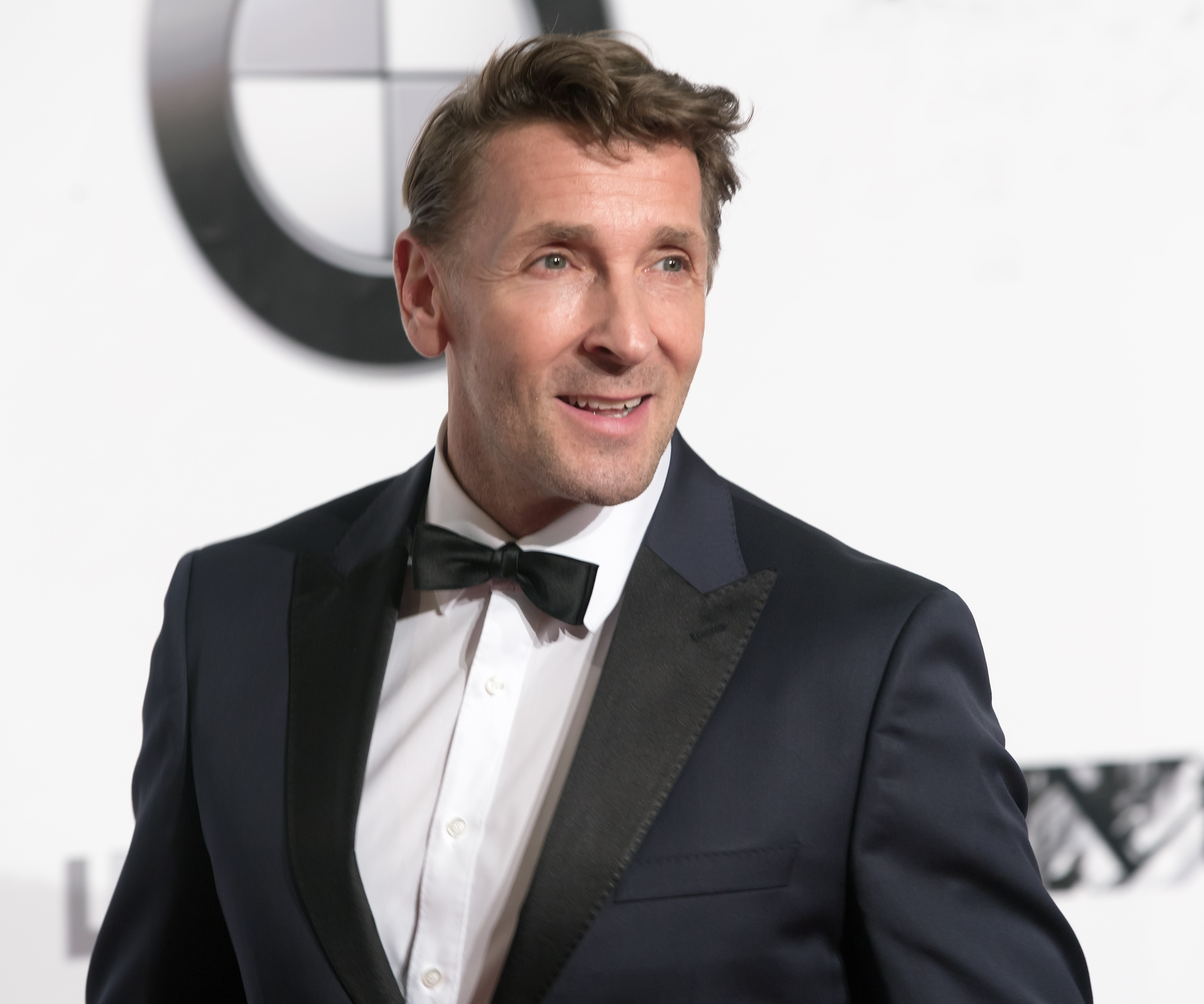 Mark Keller on the red carpet of the Filmball Vienna at Rathaus, Vienna, Austria.